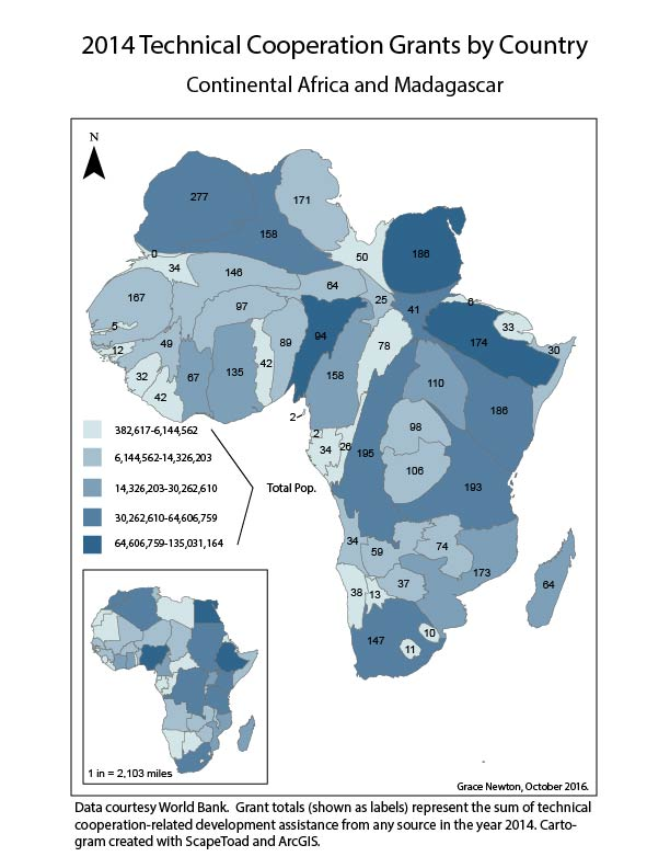 Cartogram showing technical cooperation grants by African country.